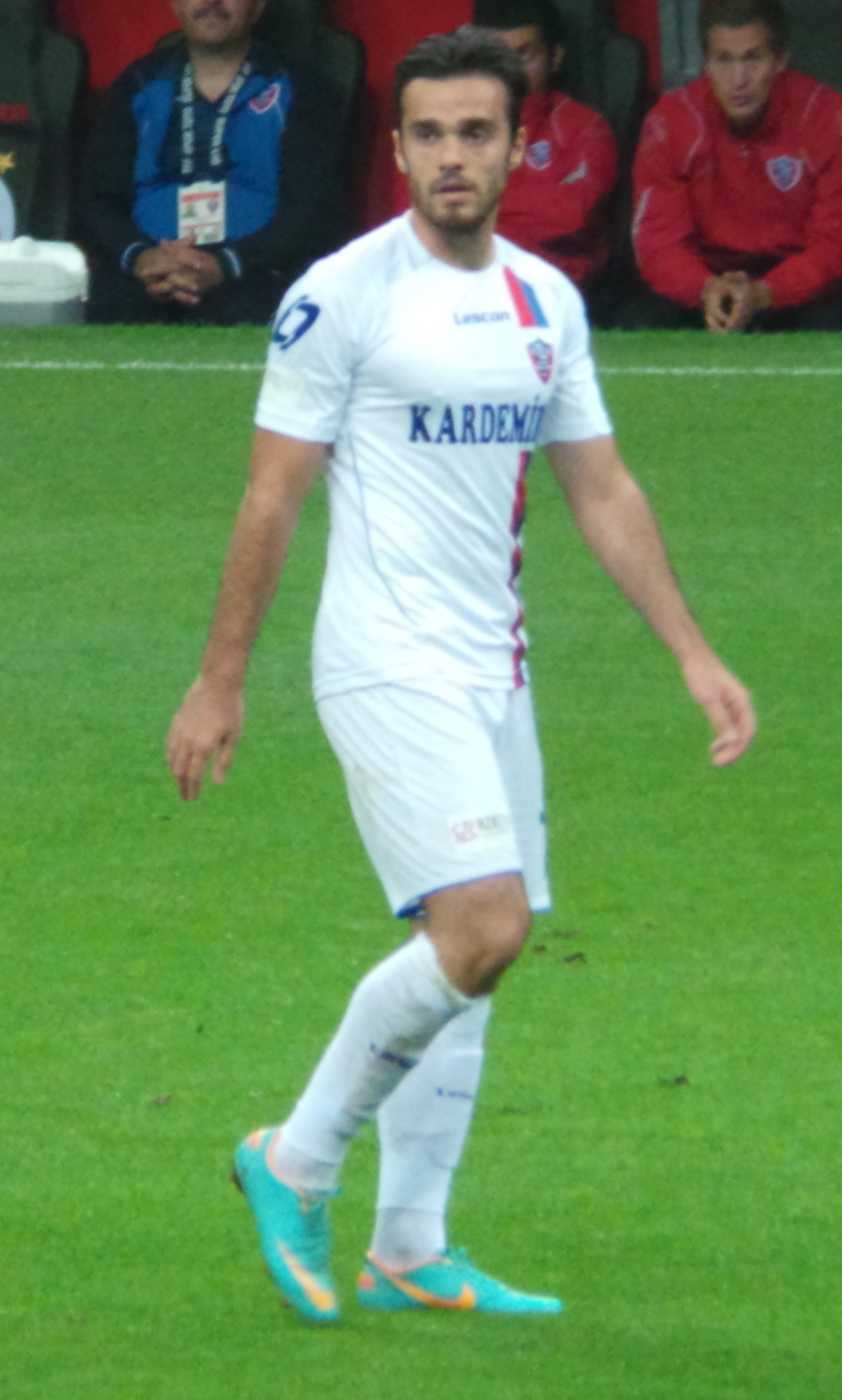 Erkan v.s. GS